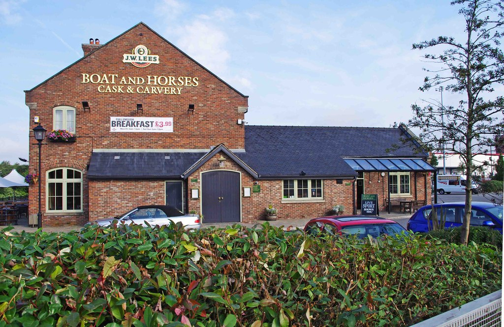 Boat & Horses (1), Broadway, Chadderton near Oldham